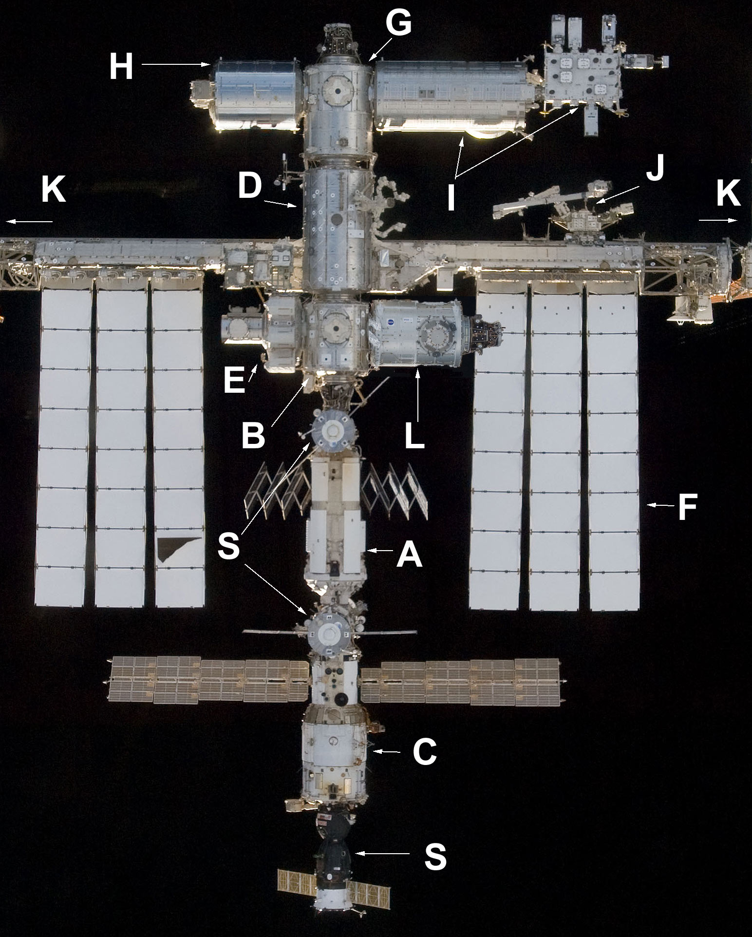 Backdropped by the blackness of space, the International Space Station is featured in this image photographed by an STS-129 crew member as Space Shuttle Atlantis and the station approach each other during rendezvous and docking activities on flight day three. Docking occurred at 10:51 a.m. (CST) on Nov. 18, 2009.